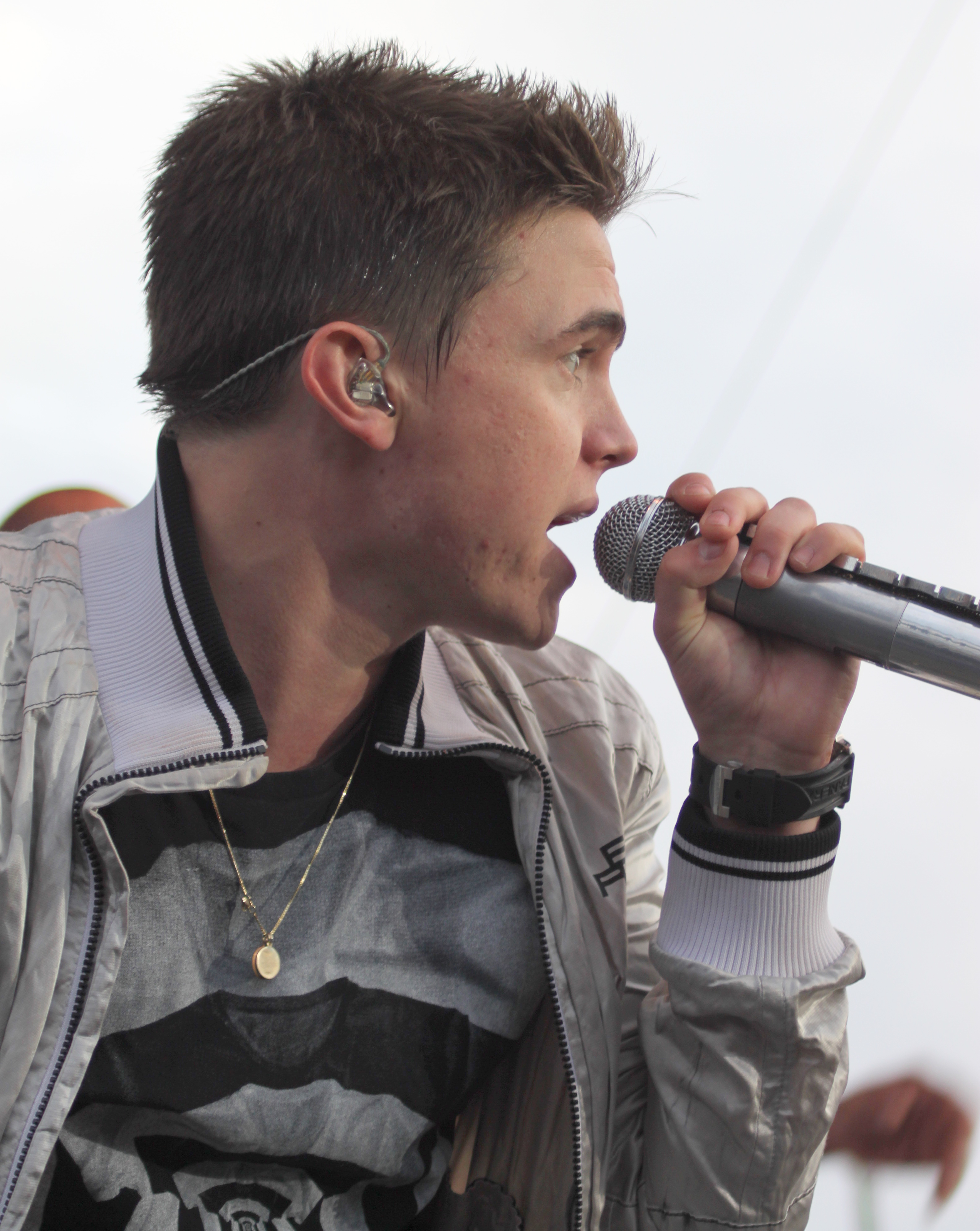 Jesse McCartney Berlin Fair.